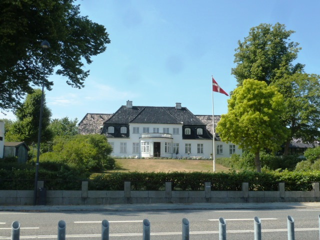 The property Bakkehuset in Vedbæk North of Copenhagen, Denmark